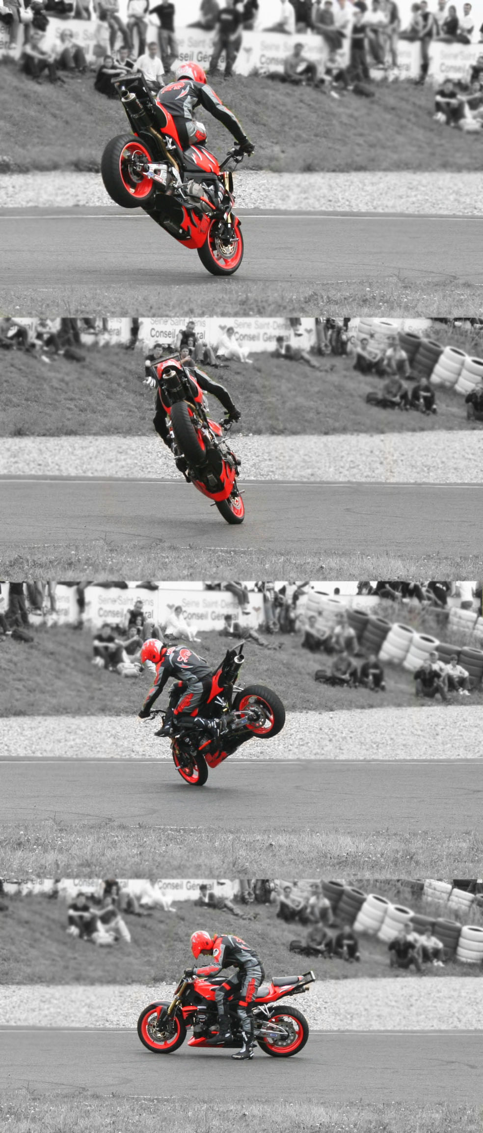 180° Stoppie, during the Stunt Bike Show (Carole Racetrack, France)